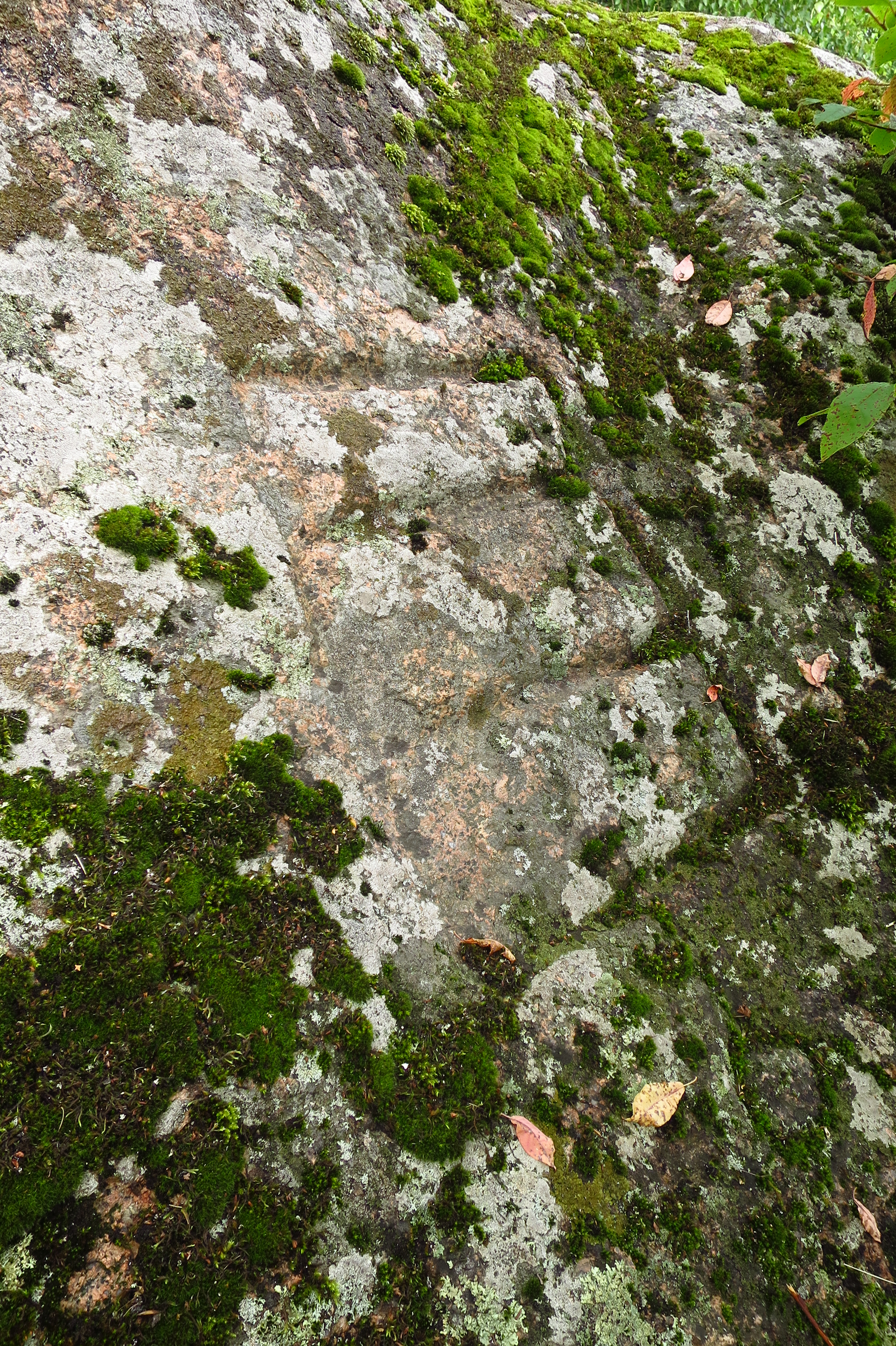 Praerest Kuusalus Lauritsakivil